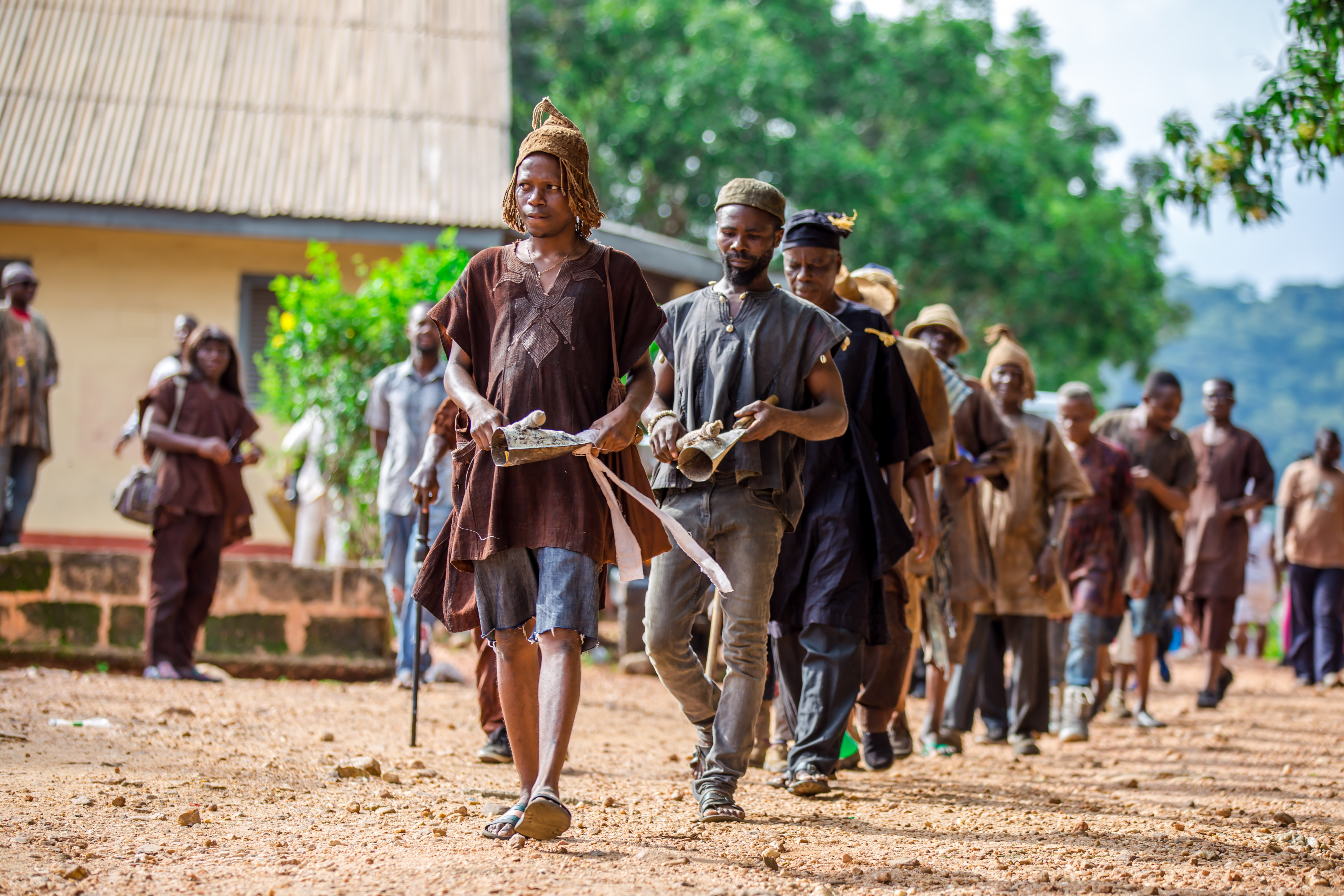 the asogli state of the volta region of Ghana hail the new yam This is an image with the theme "Play" from: Ghana